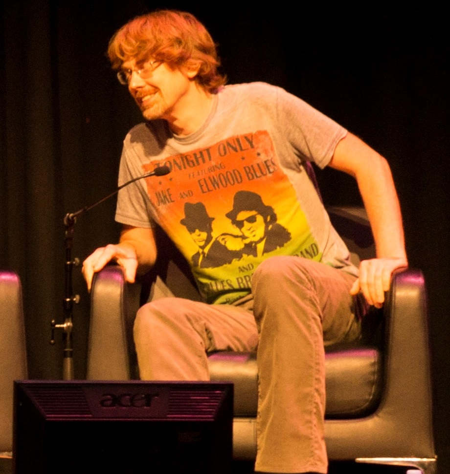 Jesper Kyd at Game Music Connect